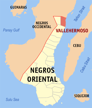 Map of Negros Oriental showing the location of Vallehermoso